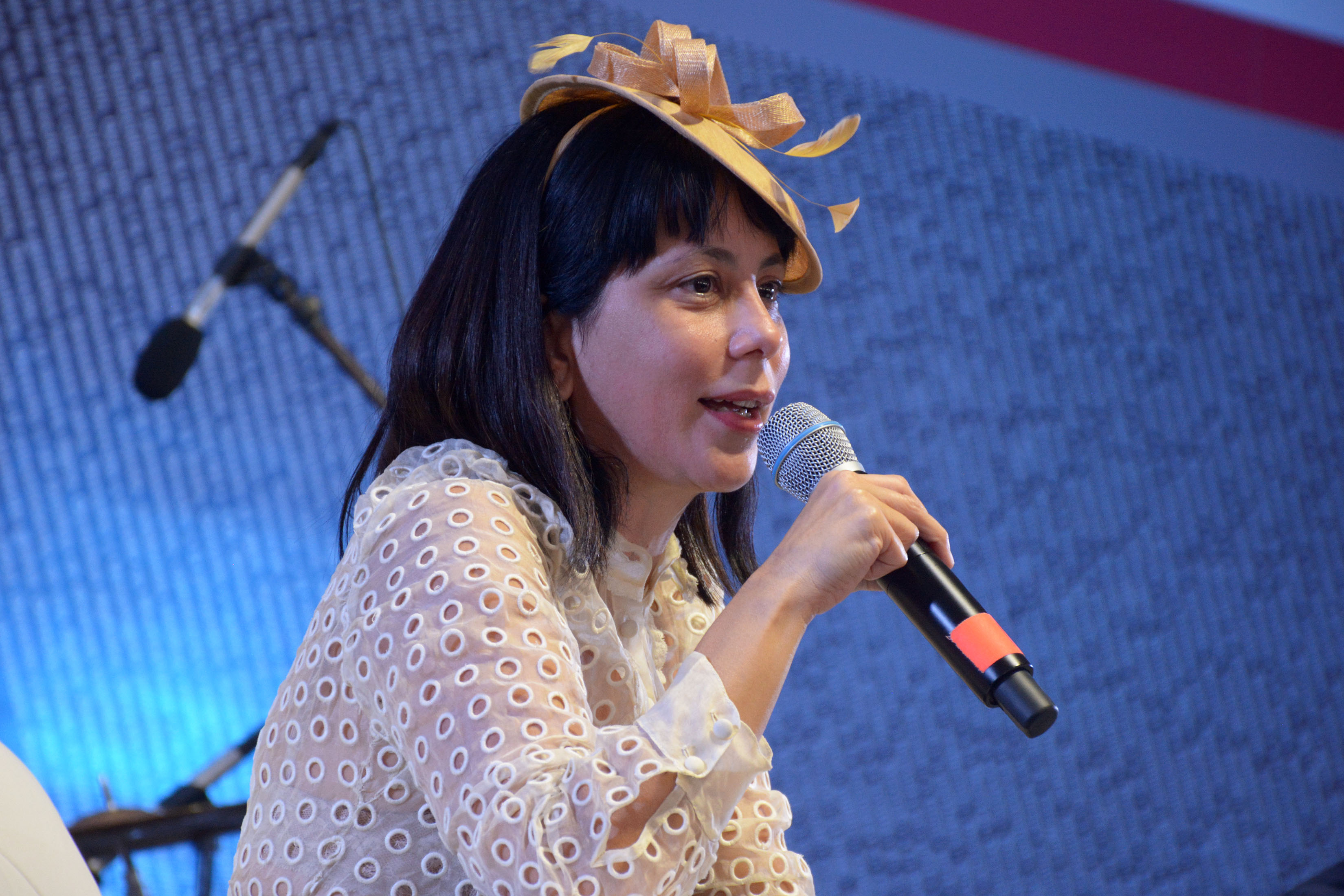 Wendy Guerra at the presentation of one her books on Mexico City. Saturday, 13 October, 2018.